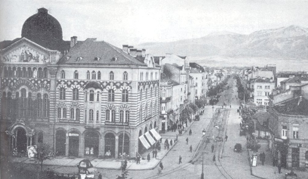 Vitosha Boulevard, Sofia, Bulgaria Faculty of Theology, Sofia University; still no Palace of Justice (build 1929 till 1941